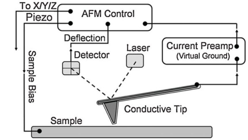 License Number: 265674124703 License Date: Apr. 26, 2011 Licensed Content Publisher: American Chemical Society Licensed Content Publication: Nano Letters Licensed Content title: Mapping Local Photocurrents in Polymer/Fullerene Solar Cells with Photoconductive Atomic Force Microscopy Licensed Content Author: David C. Coffee et al.